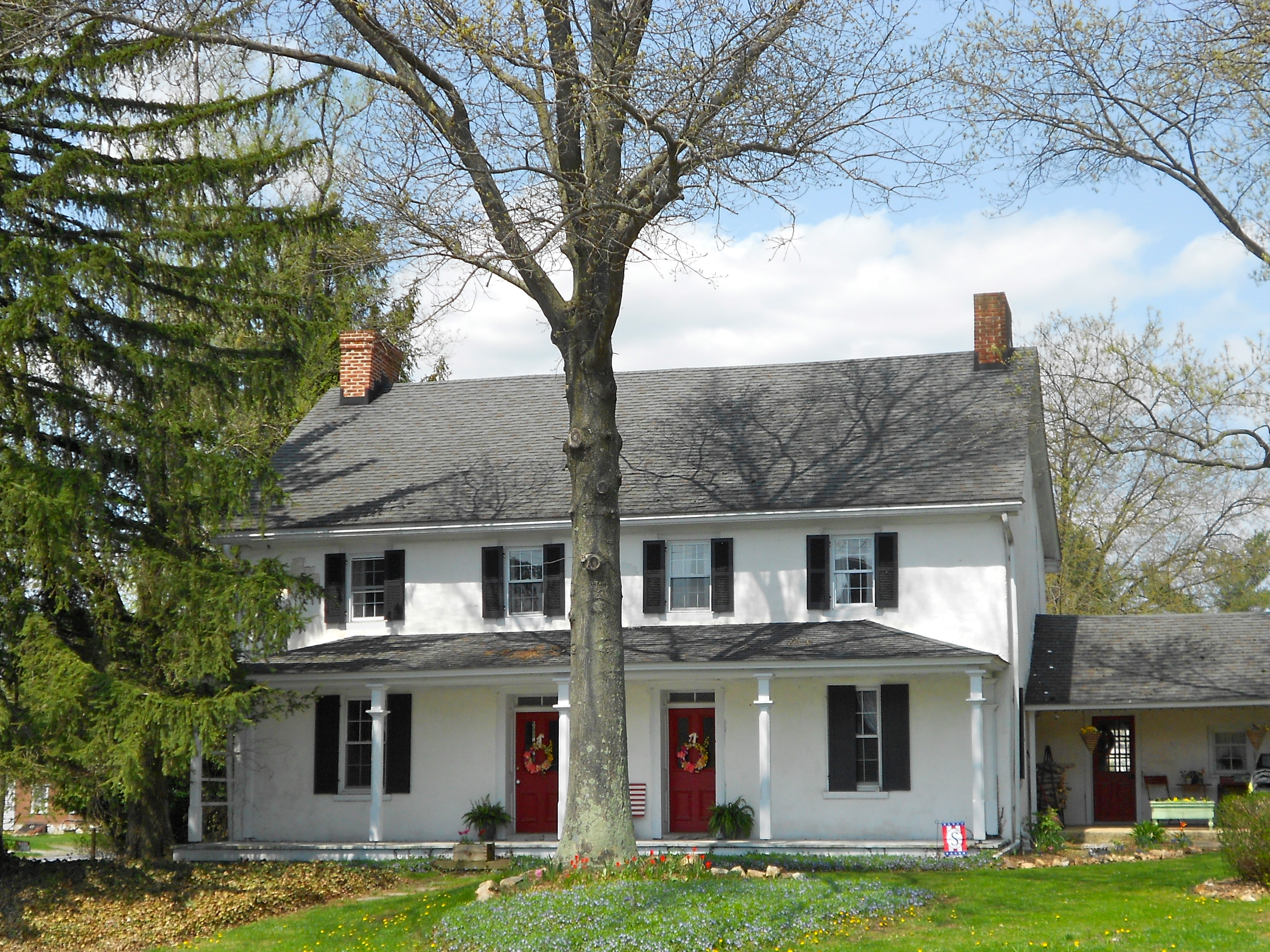 A white house in Kemblesville, Franklin Township, Chester County, Pennsylvania